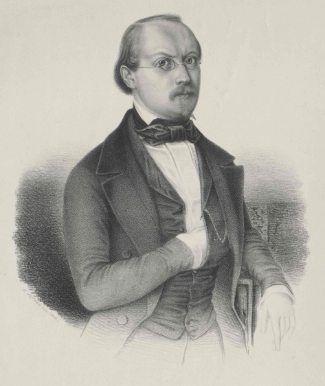 Joachim Raff (1822–1882), German-Swiss composer, teacher and pianist.